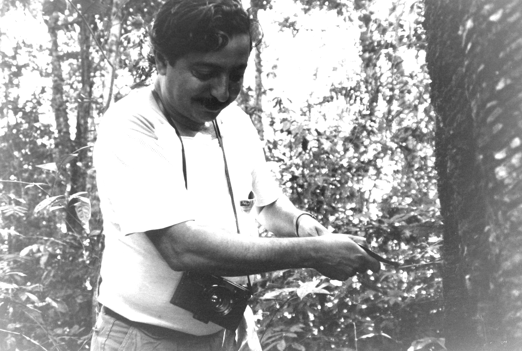 Chico Mendes demonstrating the process of tapping a rubber tree to produce latex. This photo was taken in July 1988 by Miranda Smith, when she first met Chico. By the time Miranda returned to Xapuri in November, Chico was protected by bodyguards, but it had become too dangerous for Chico to venture into the forest.